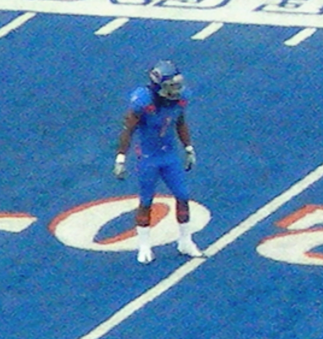 Boise State cornerback Kyle Wilson during a game vs San Jose State on October 31, 2009 in Boise, ID